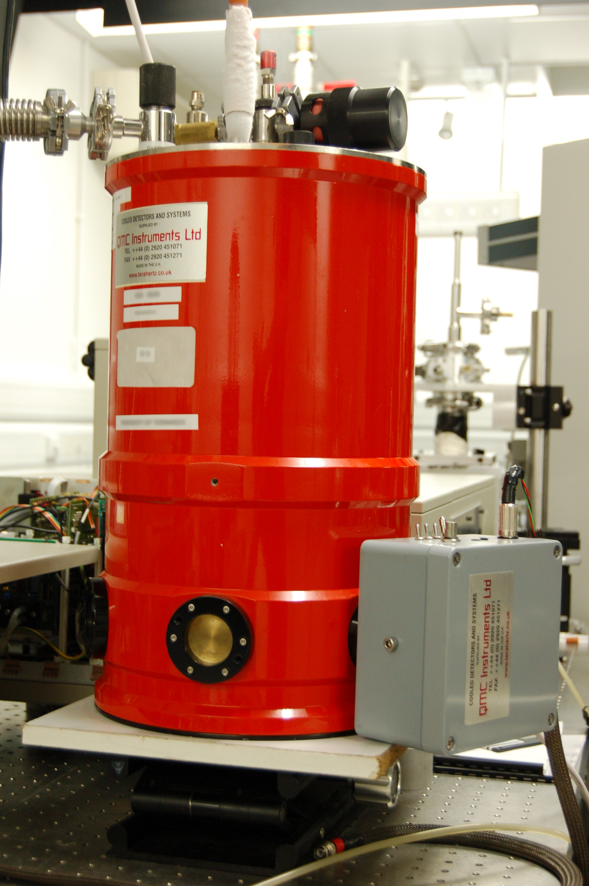 Bolometer for terahertz radiation detection